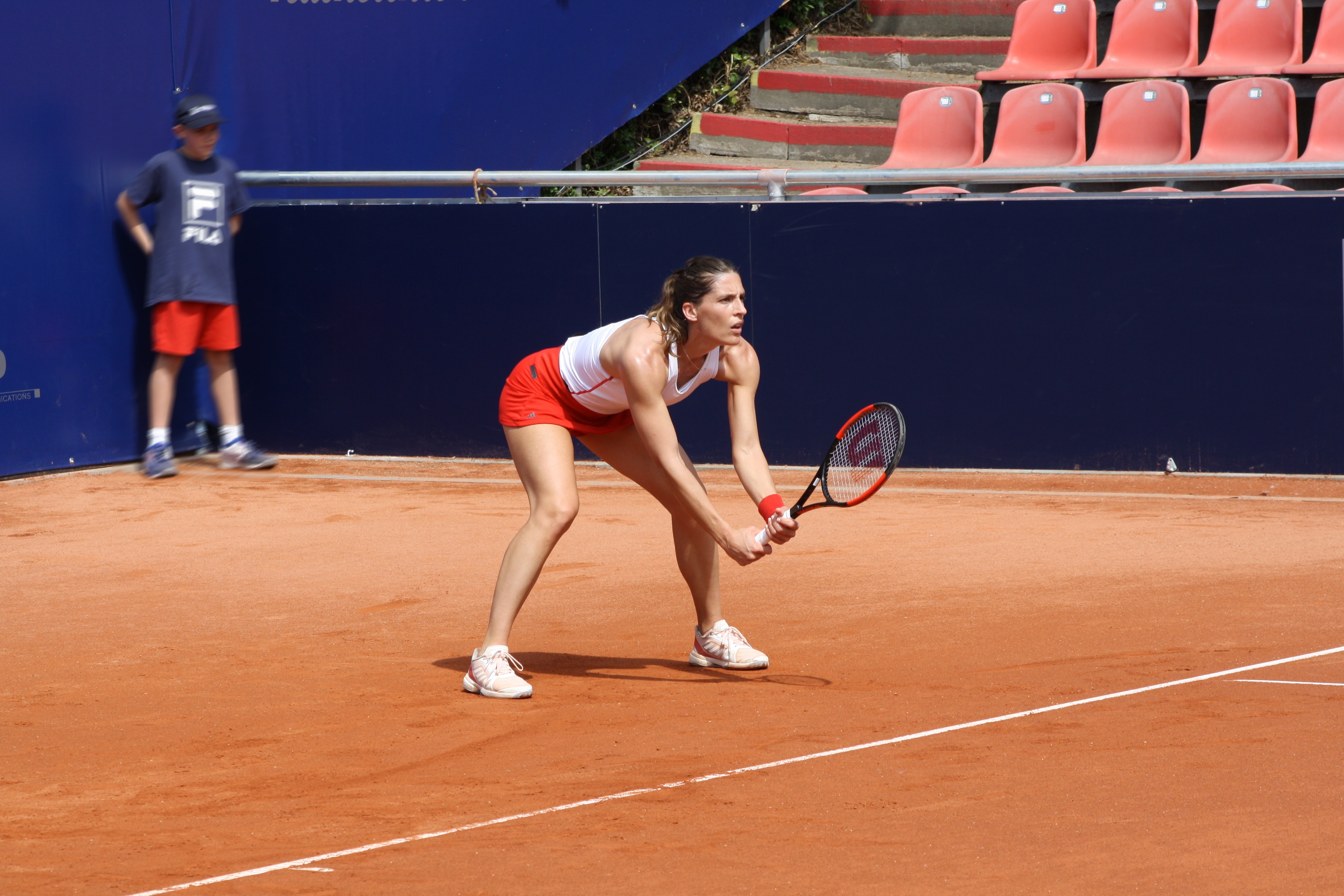 Andrea Petković, May 2018